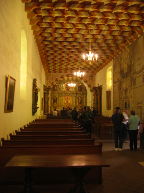 Mission San Francisco de Asís, known as Mission Dolores.